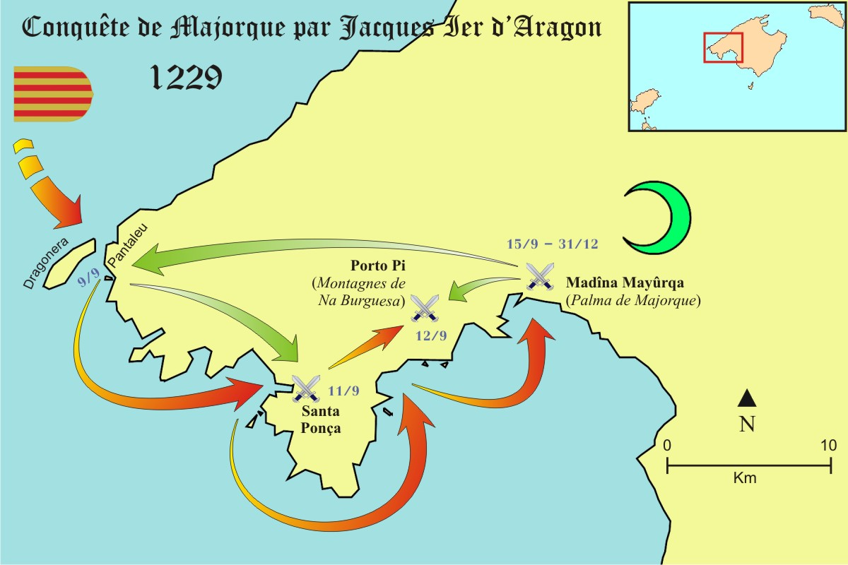 Conquest of Mallorca by James I of Aragon (1229).